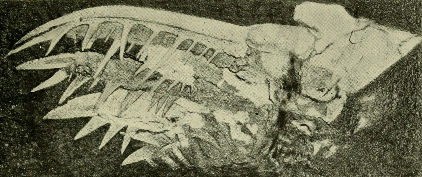 Hurdia victoria Walcott, 1912 after Supporting Online Material for Daley, Budd, Caron, Edgecombe & Collins 2009